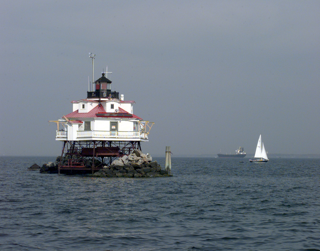 The Thomas Point Shoal Lighthouse in Chesapeake Bay, Maryland, USA.